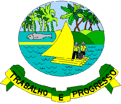 Logo for Brazilian municipality Coruripe. Drawed in Microsoft Paint. Cropped and removed information from author's original: " Reberth Almeida Couripe-Al 2006".